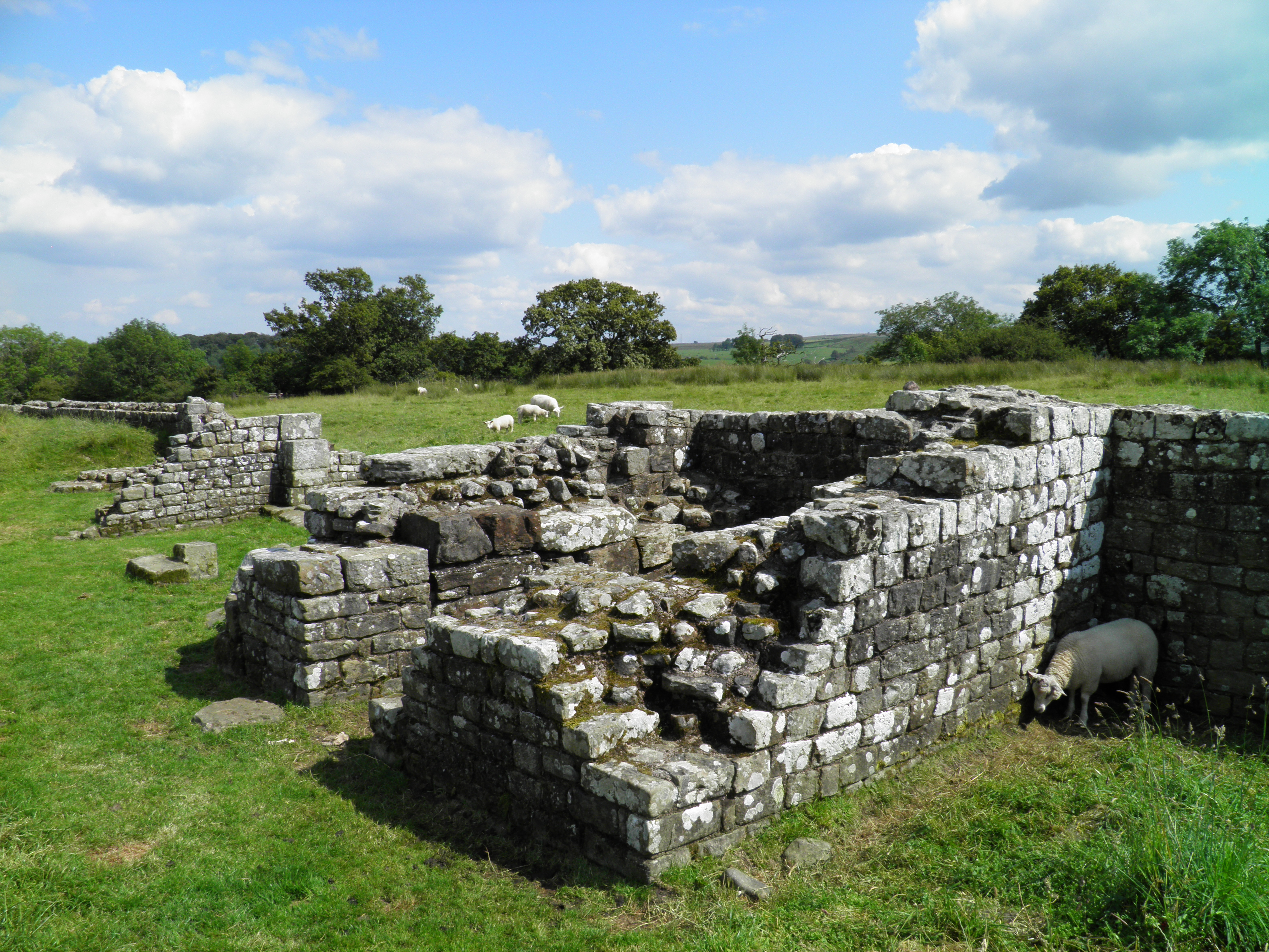 Birdoswald Roman Fort, Hadrian's Wall